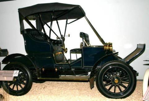 1906 Adams Farwell photographed by DougW of at the National Automobile Museum in Reno, Nevada.